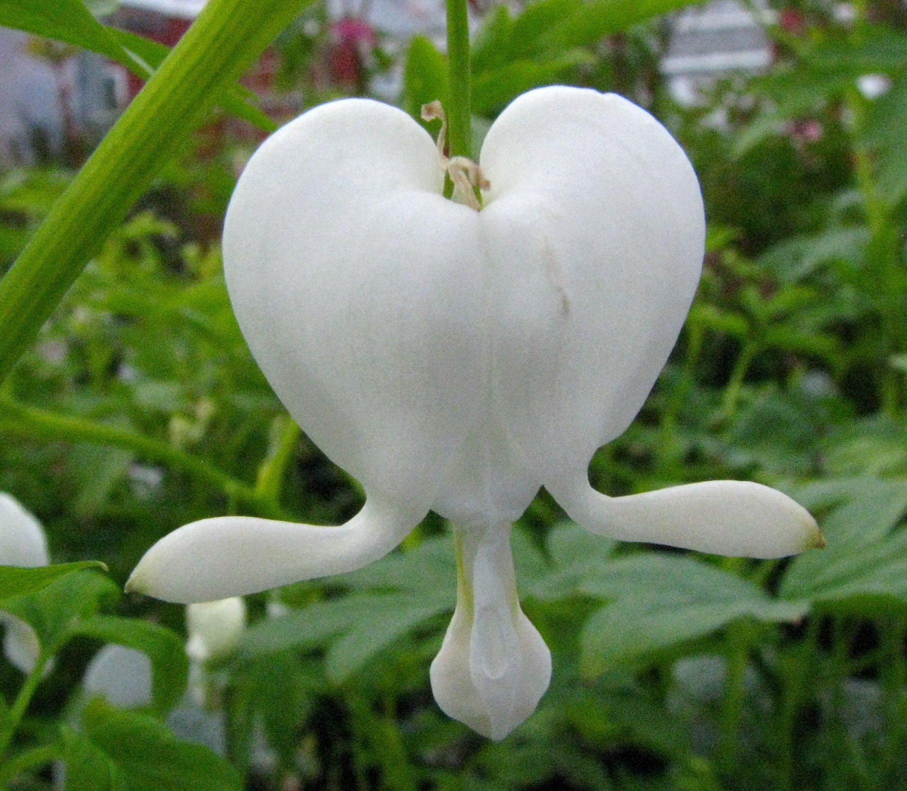 [syn. Dicentra spectabilis] Bleeding-heart Fumariaceae Oregon (Cultivated)